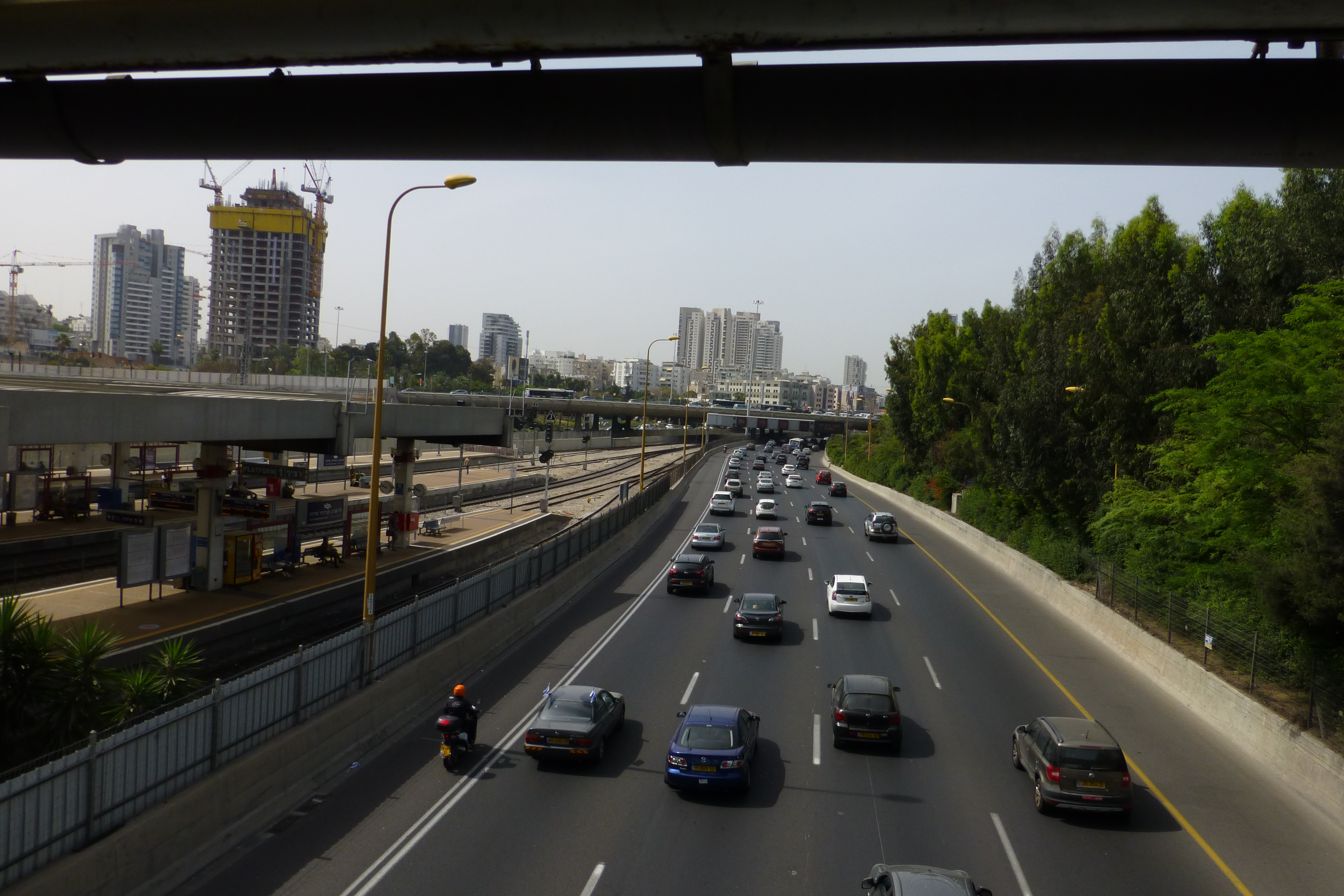 Highway 20 (Israel)